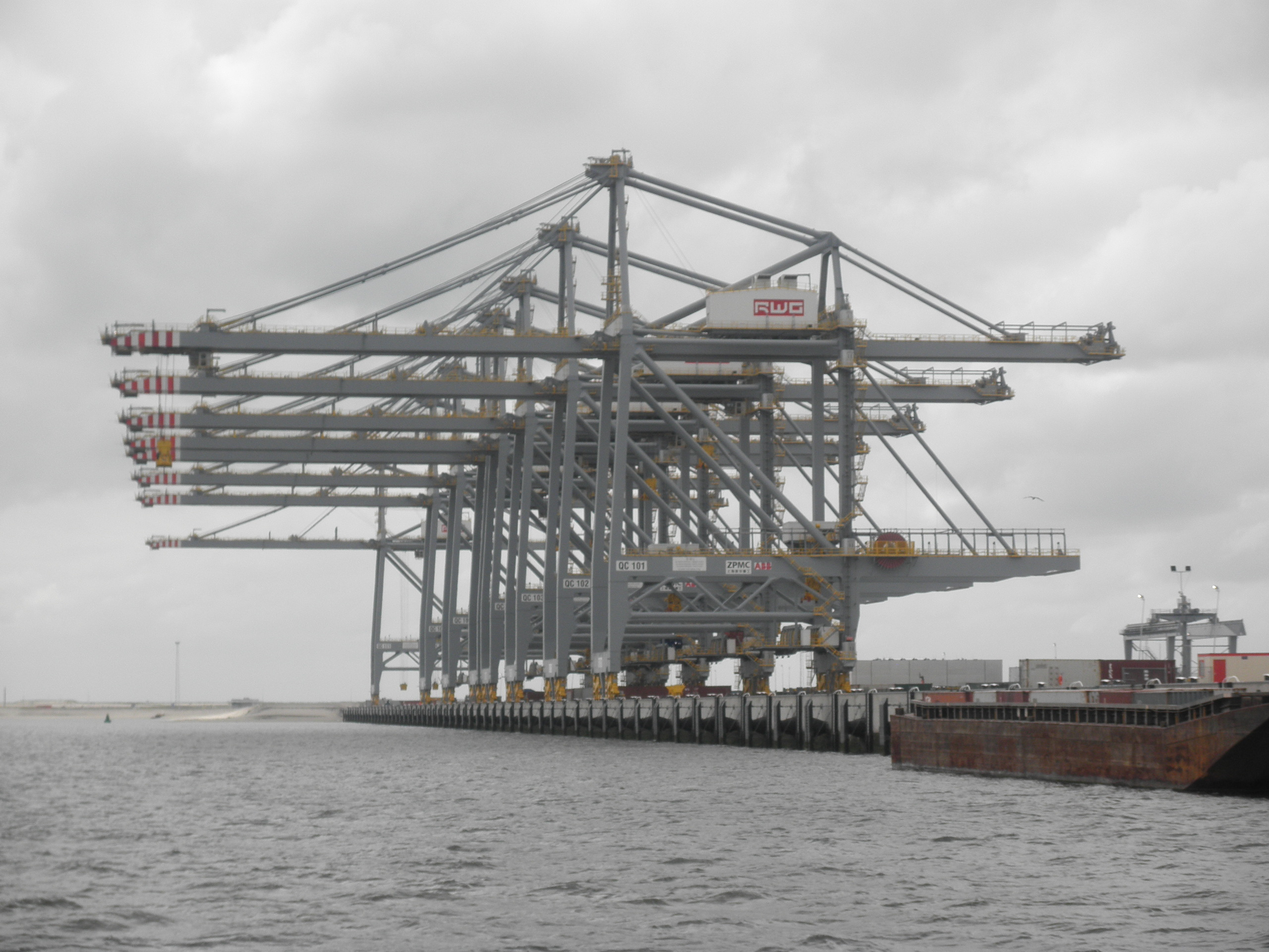 Eight Super-Post Panamax containercranes at the RWG containerterminal at the Maasvlakte, Port of Rotterdam